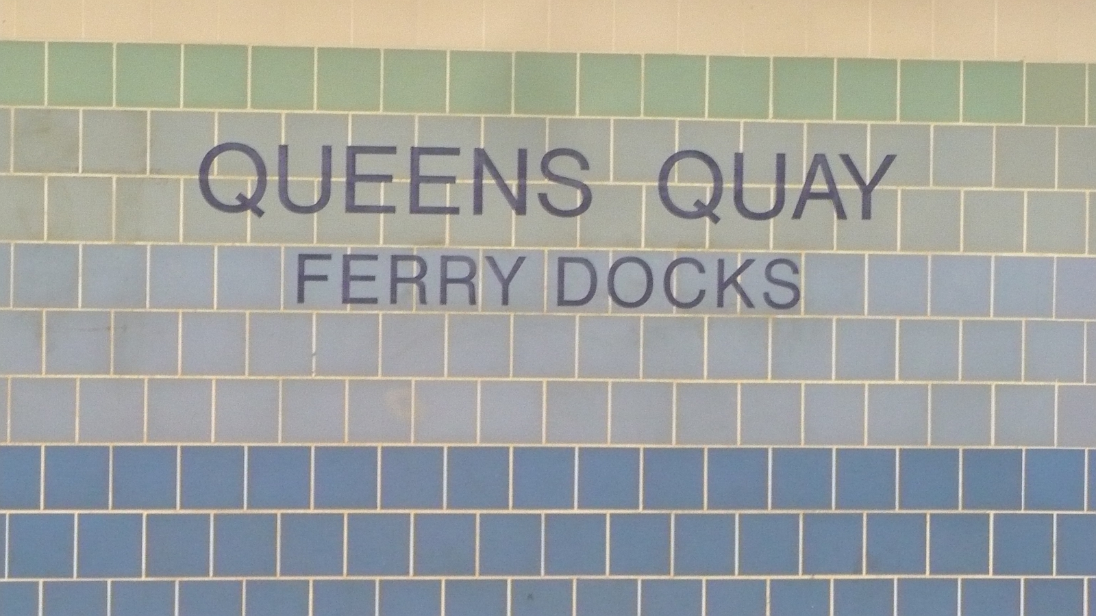 Queens Quay underground streetcar station in Toronto